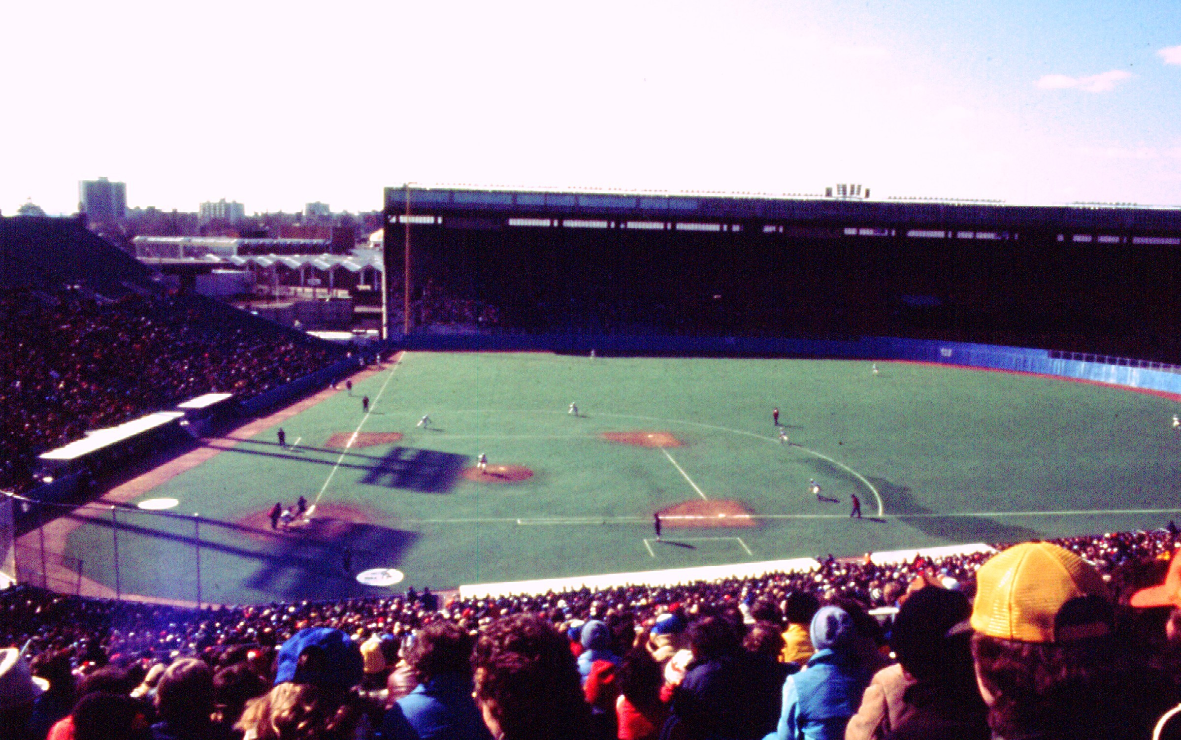 Second league game for the Toronto Blue Jays. Unlike the first game played in a snow storm, this day was bright and sunny with the temperature well below freezing.